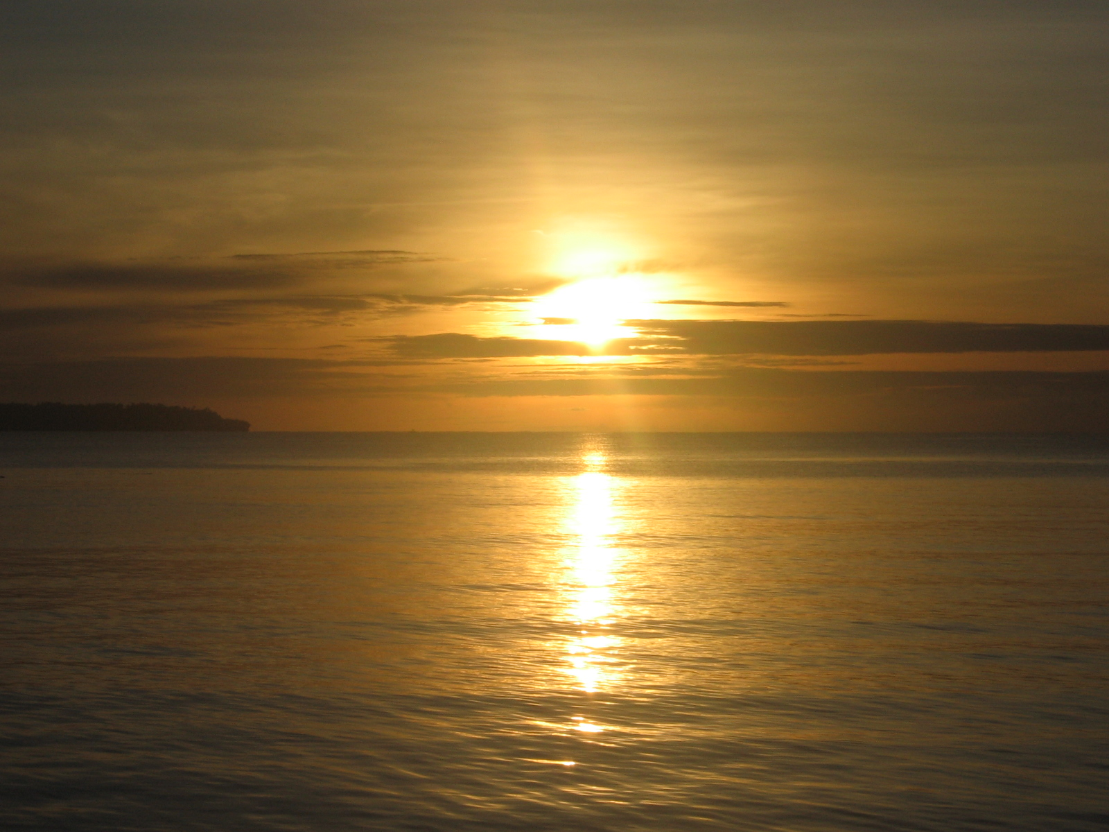 This picture shows the sunrise in Borongan City, Eastern Samar. Borongan faces the mighty Pacific Ocean to its east.